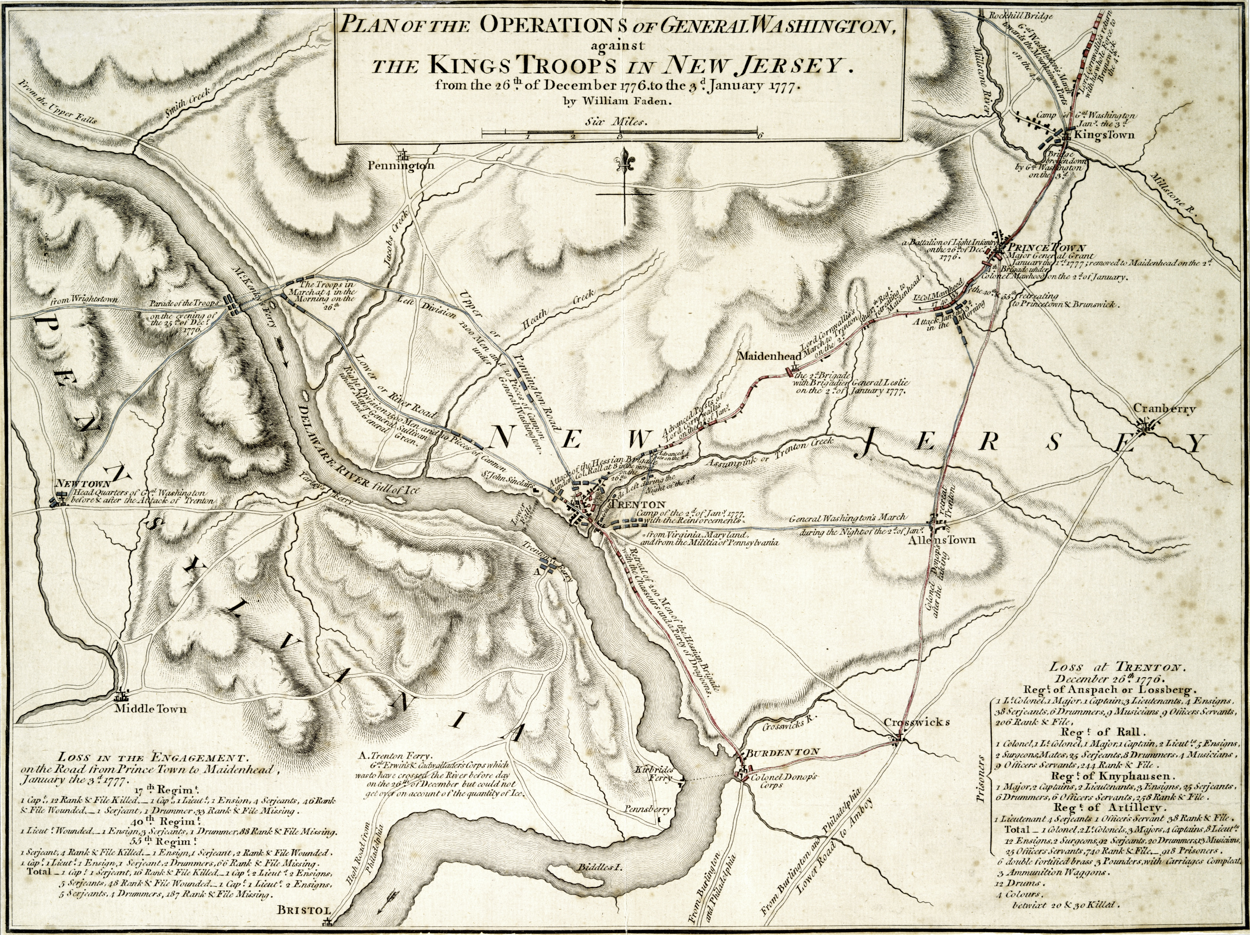 Map by William Faden of the Ten Crucial Days, from December 25, 1776 to January 3, 1777, during the American Revolutionary War. It shows the Crossing of the Delaware River, the Battle of Trenton, the Battle of the Assunpink Creek, and the Battle of Princeton in New Jersey. Note: cropped, adjusted, from .tif format.